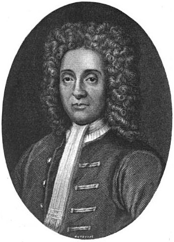 Picture of Abraham Sharp (1651–1742), the astronomer and mathematician